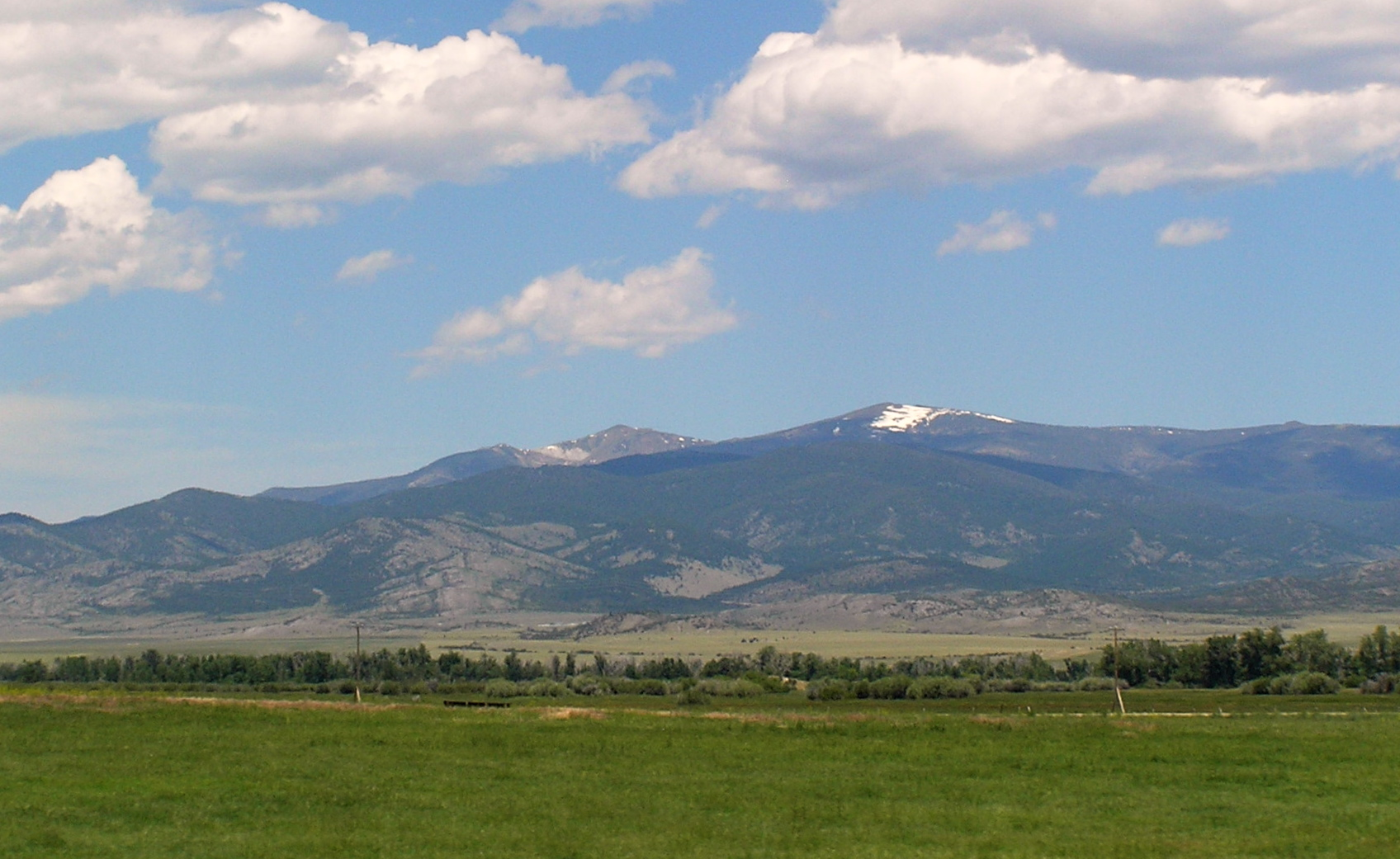 South face of the Elkhorn mountains, as viewed from south of Boulder, MT